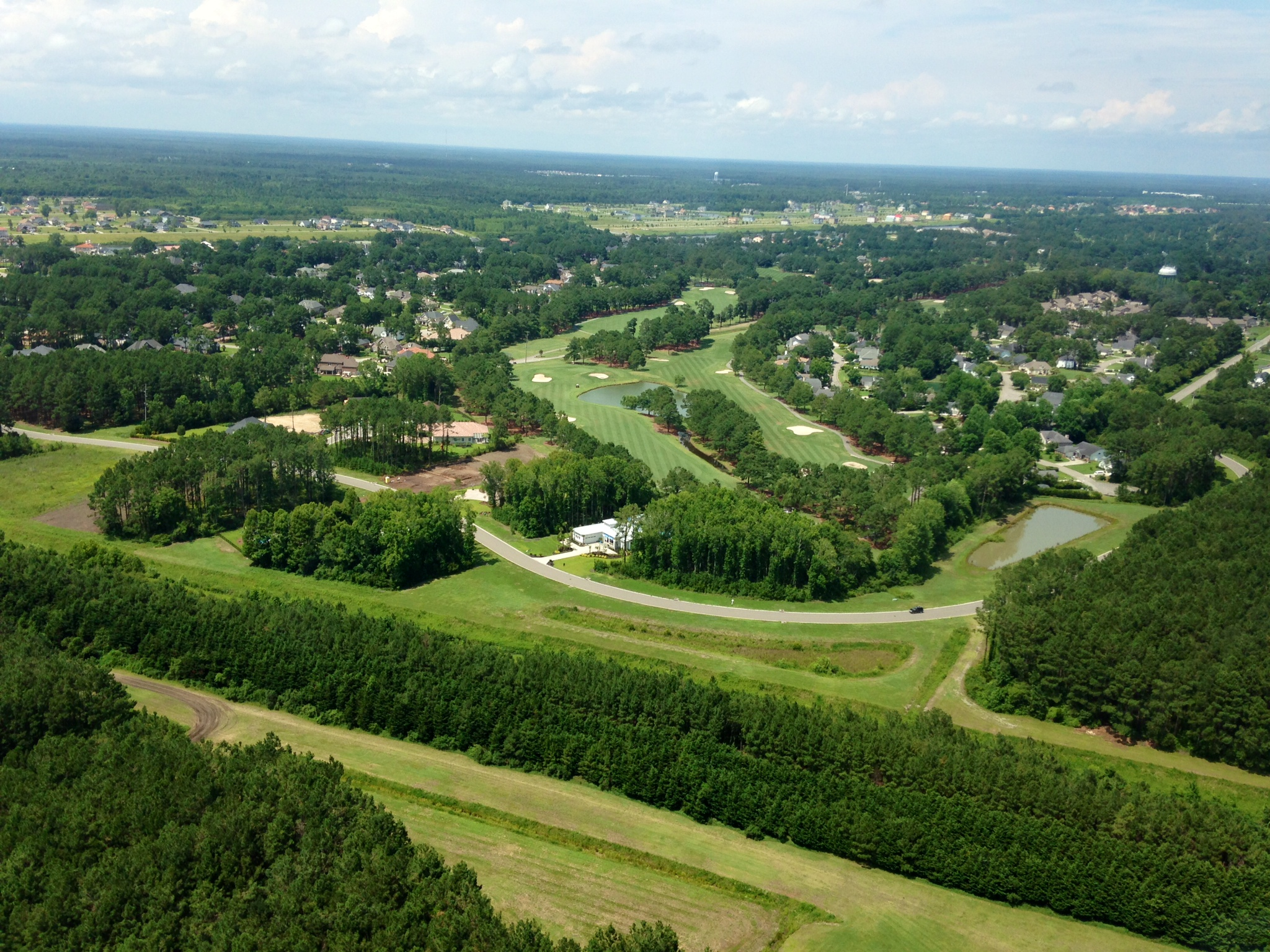 The Myrtlewood Golf Club in Myrtle Beach, South Carolina